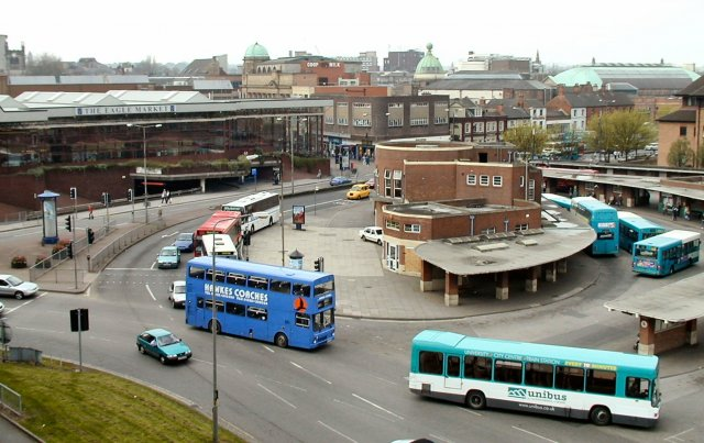 Derby Bus Station. The Eagle Market is on the left